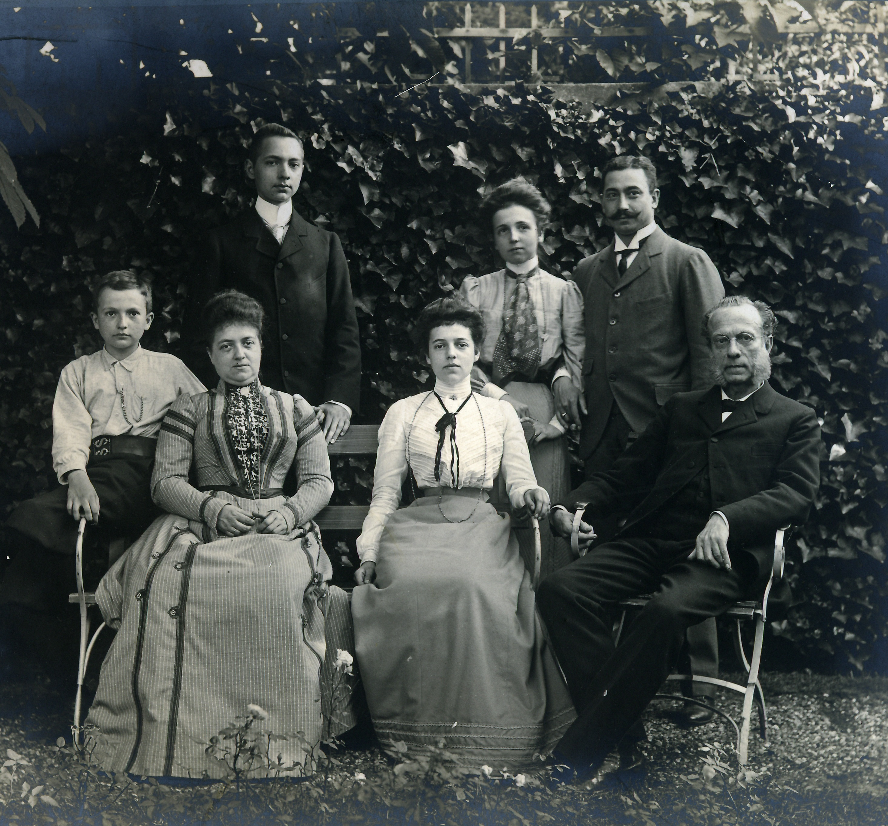 Picture made by a relative in 1905. From the left to the right: (standing) Willem B. Engelbrecht and Adolphine H. Engelbrecht with her husband Joan Arendsen de Wolff. (sitting:) Edwin M.L. Engelbrecht, Berendina Engelbrecht née Pepfenhauser, Nisette C. Engelbrecht and Willem Anthony Engelbrecht.